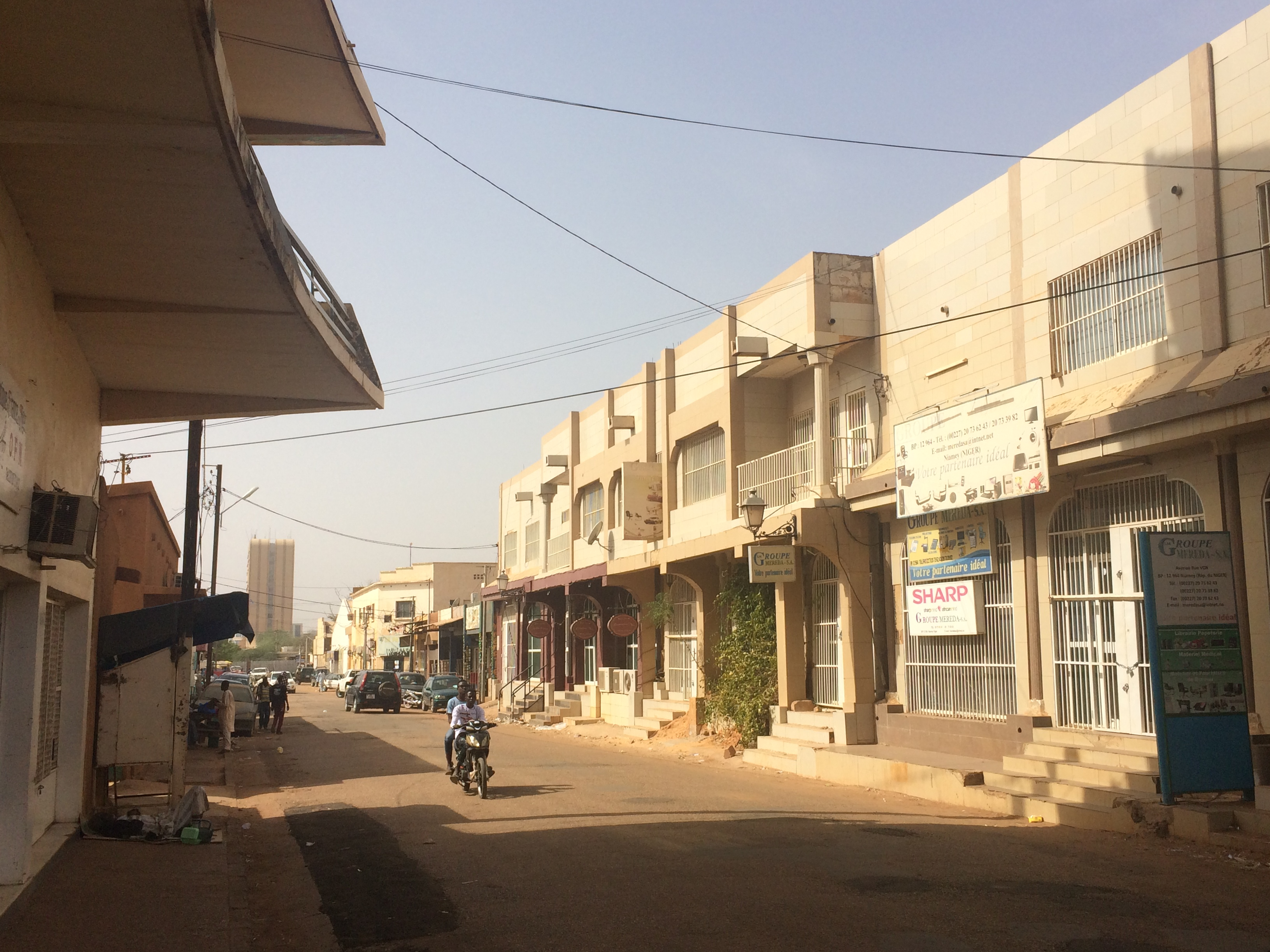 Rue NB-18 in Niamey, Niger (Niamey Bas, Petit Marché neighborhood)